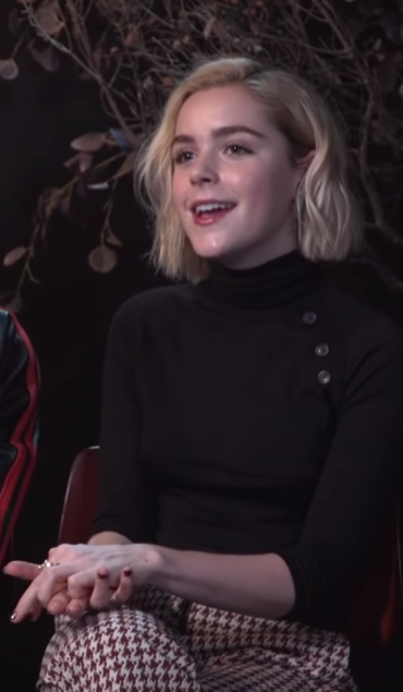 Stars of Netflix’s The Chilling Adventures Of Sabrina, Kiernan Shipka and Ross Lynch play a hilarious game of TEEN TV SHOW CHARADES: can you guess the show from their acting it out? Plus, they reveal what it was really like to film their most romantic scenes together, their fave things about each other AND what we can expect from a SABRINA x ARCHIE Riverdale crossover!